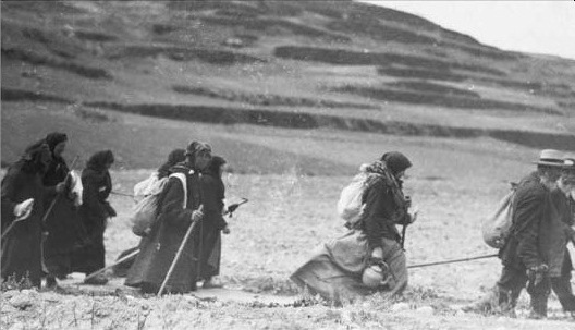 Jewish immigrants walk to Palestine.